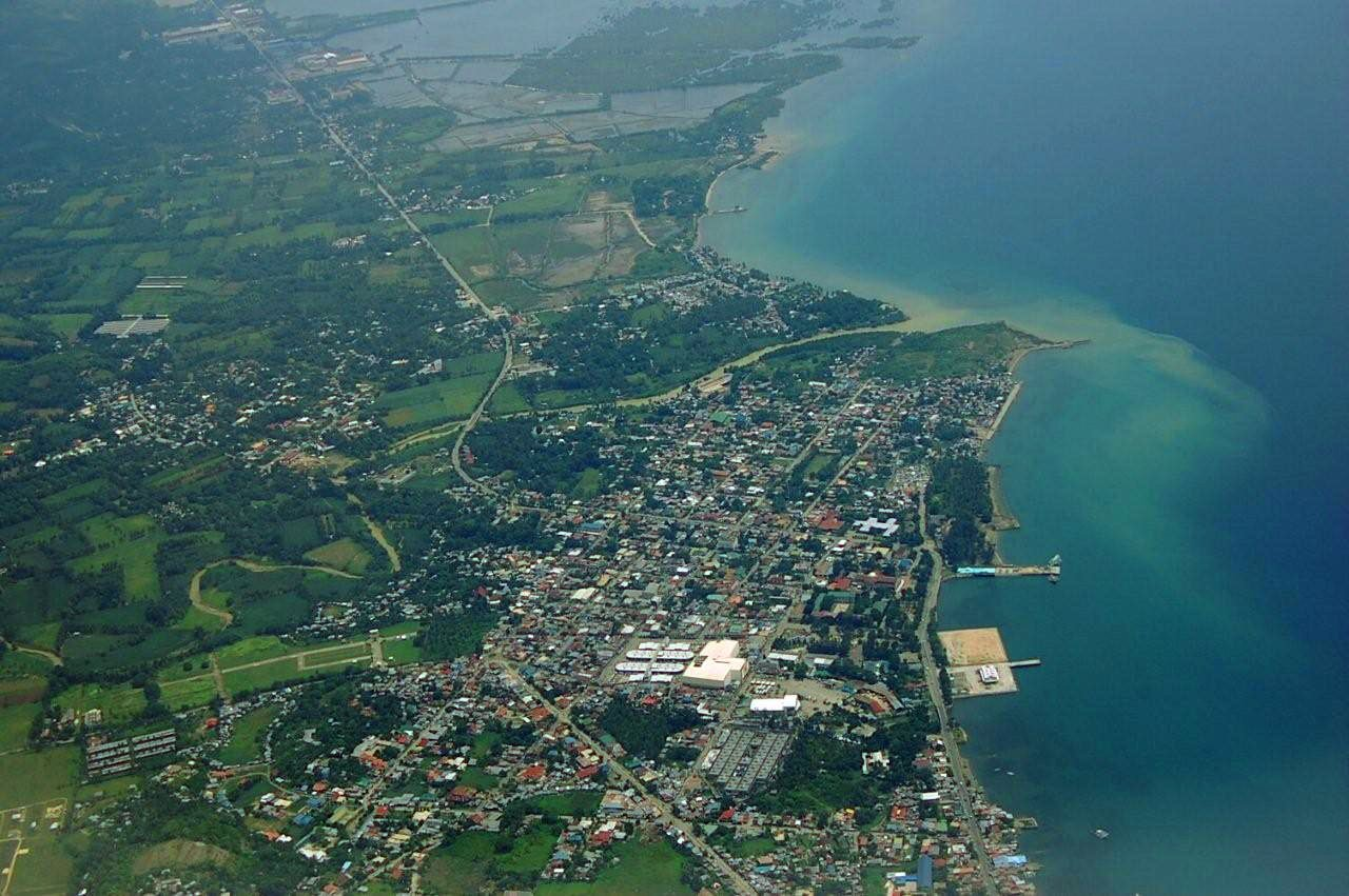 Aerial view of Danao City, Cebu, Philippines, taken on board PAL Express trip back to Cebu